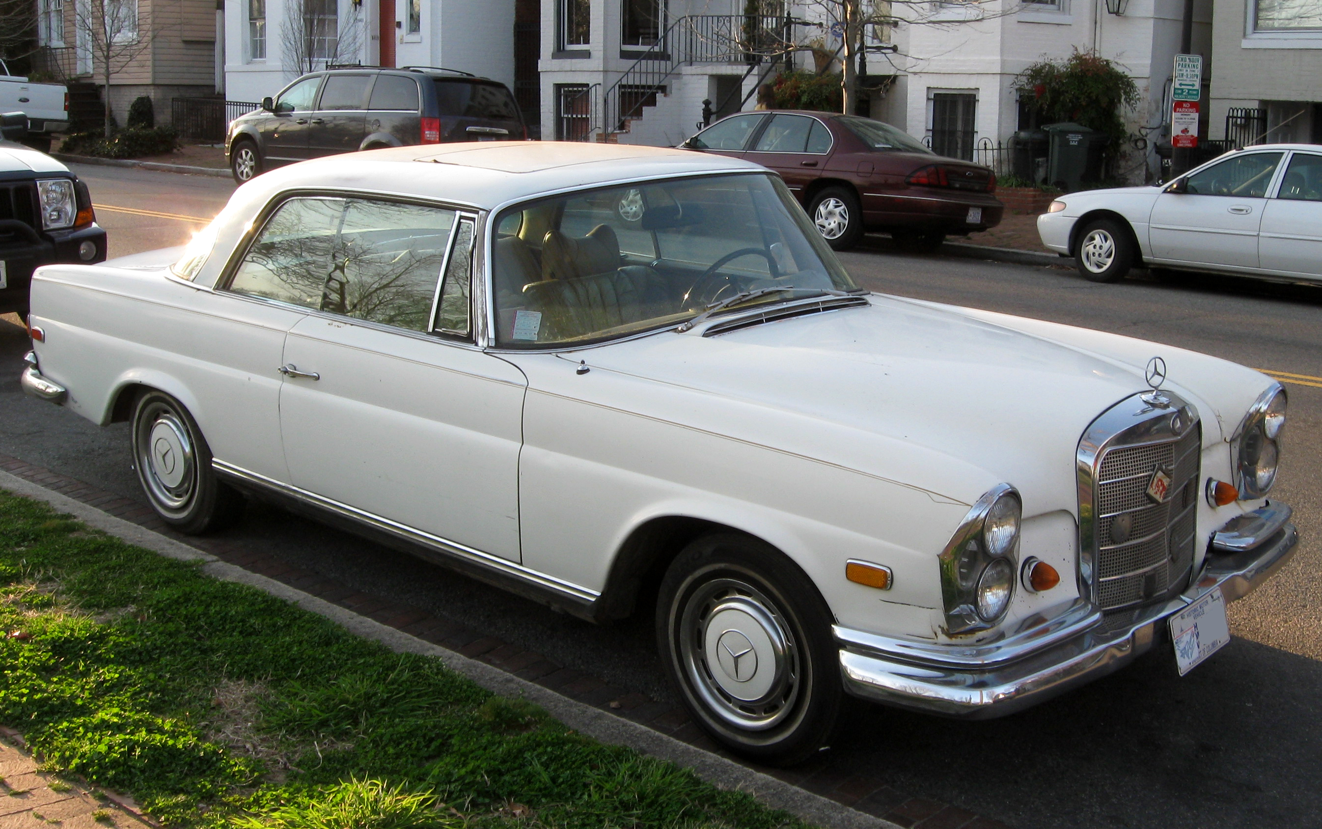 Mercedes-Benz 280 SE photographed in Washington, D.C., USA.